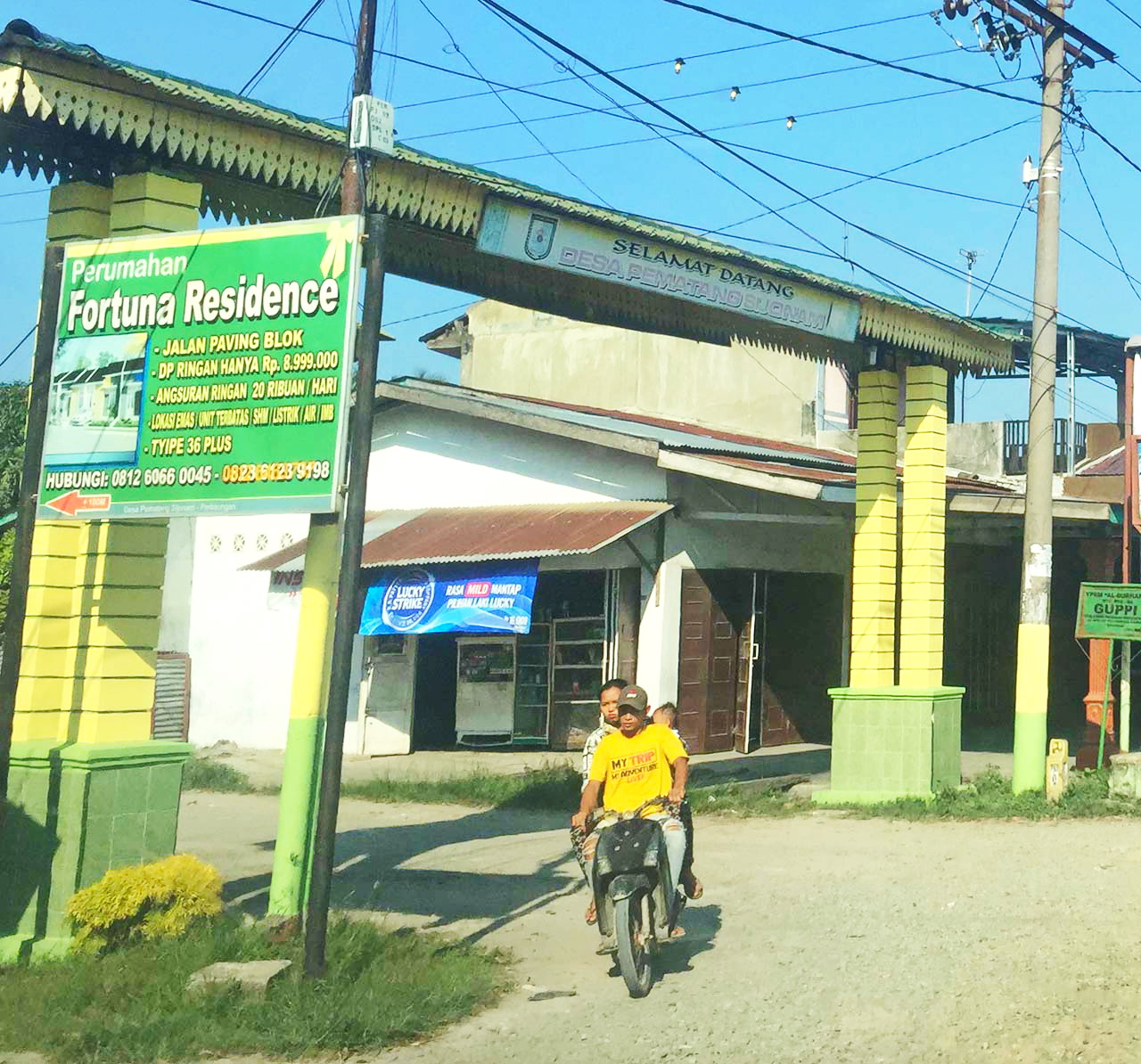 Welcome gate to Pematang Sijonam, Perbaungan, Serdang Bedagai